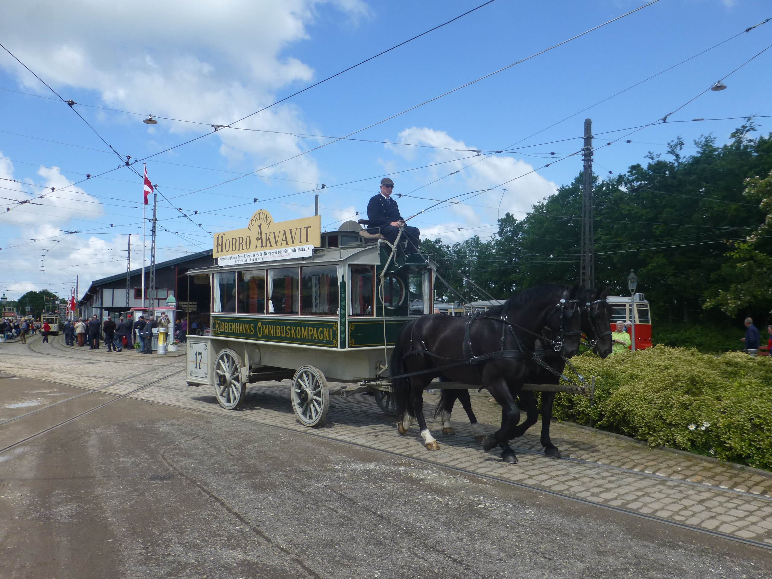 Tram parade at Sporvejsmuseet Skjoldenæsholm due to celebrating of 50 years of the Danish tramway society, Sporvejshistorisk Selskab. Horse-drawn bus from Copenhagen, KO 17 from 1897.